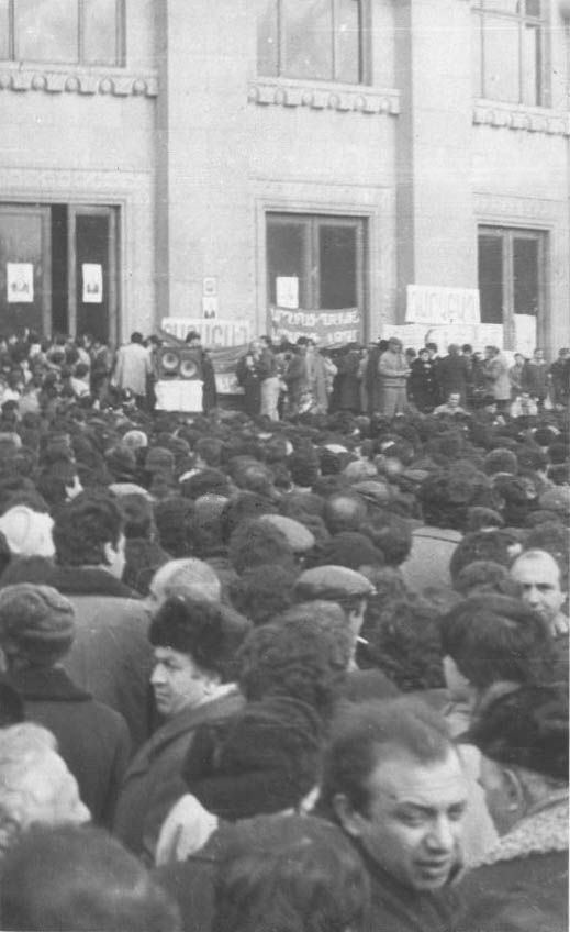 Yerevan demonstration on theater square. Summer-1988.